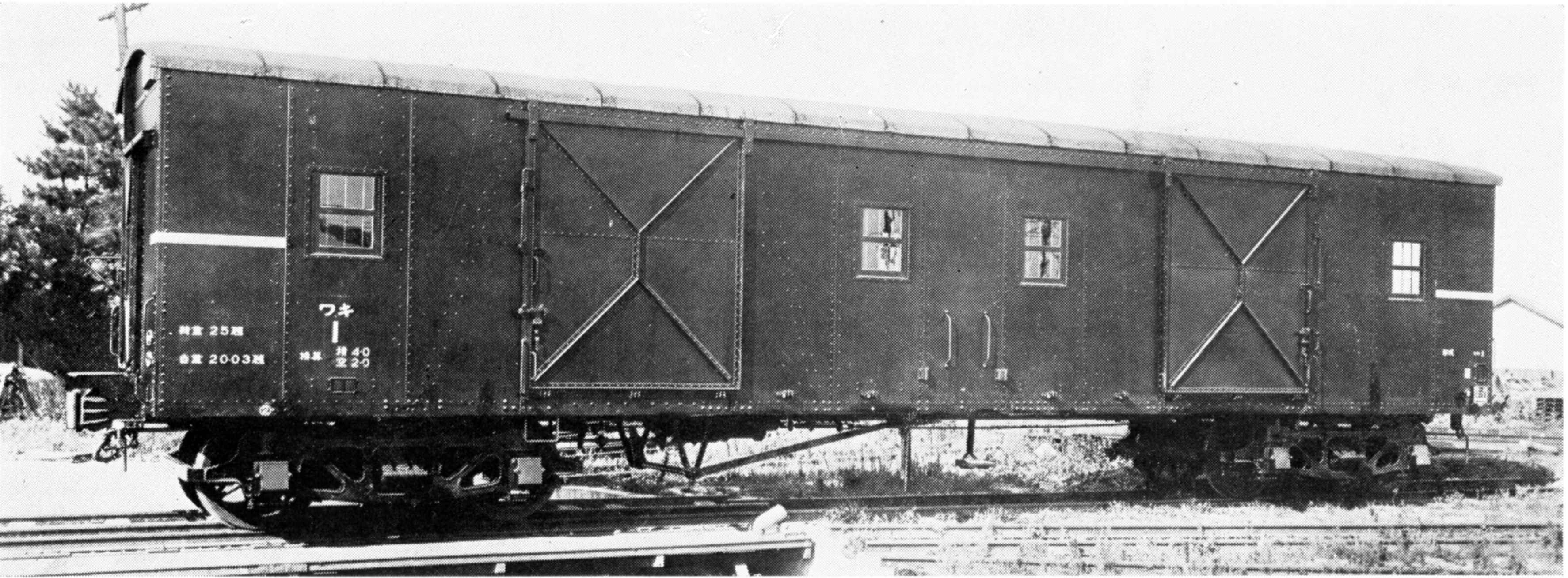 Photograph of JNR's Class Waki1 freight car (type1)